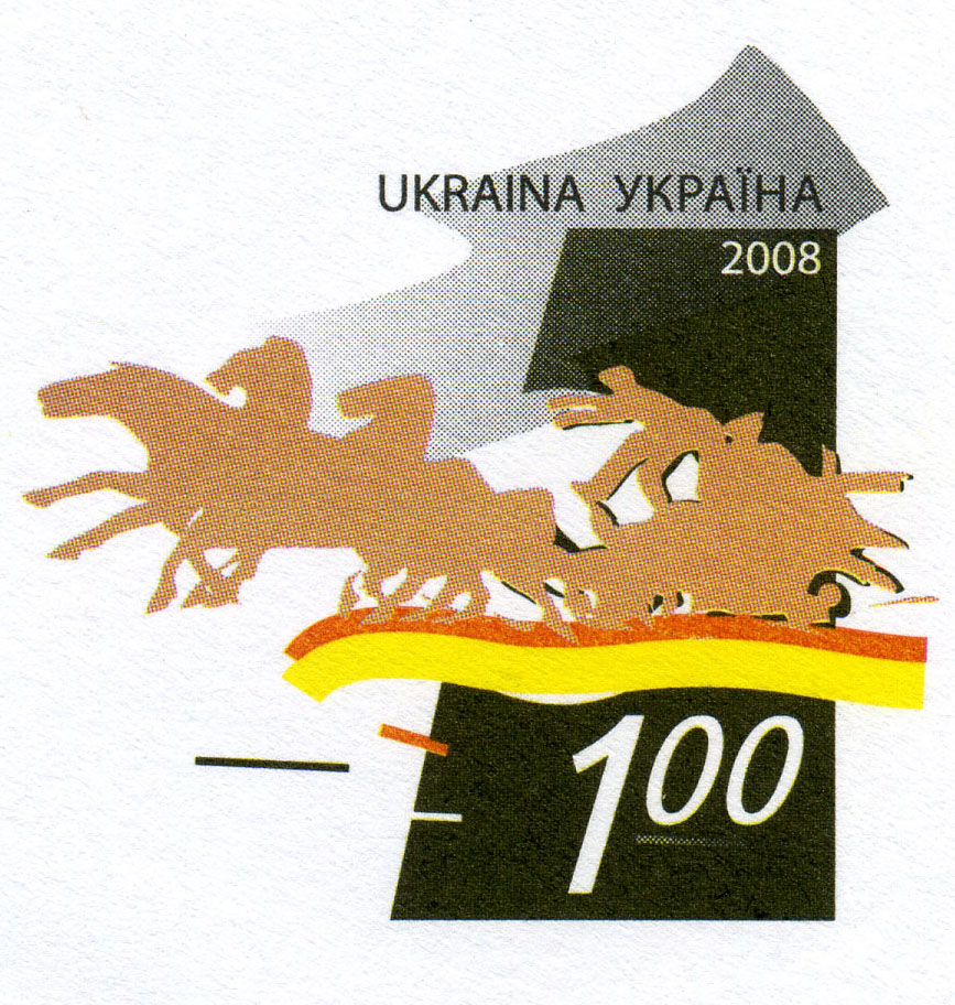 Stamp of Ukraine